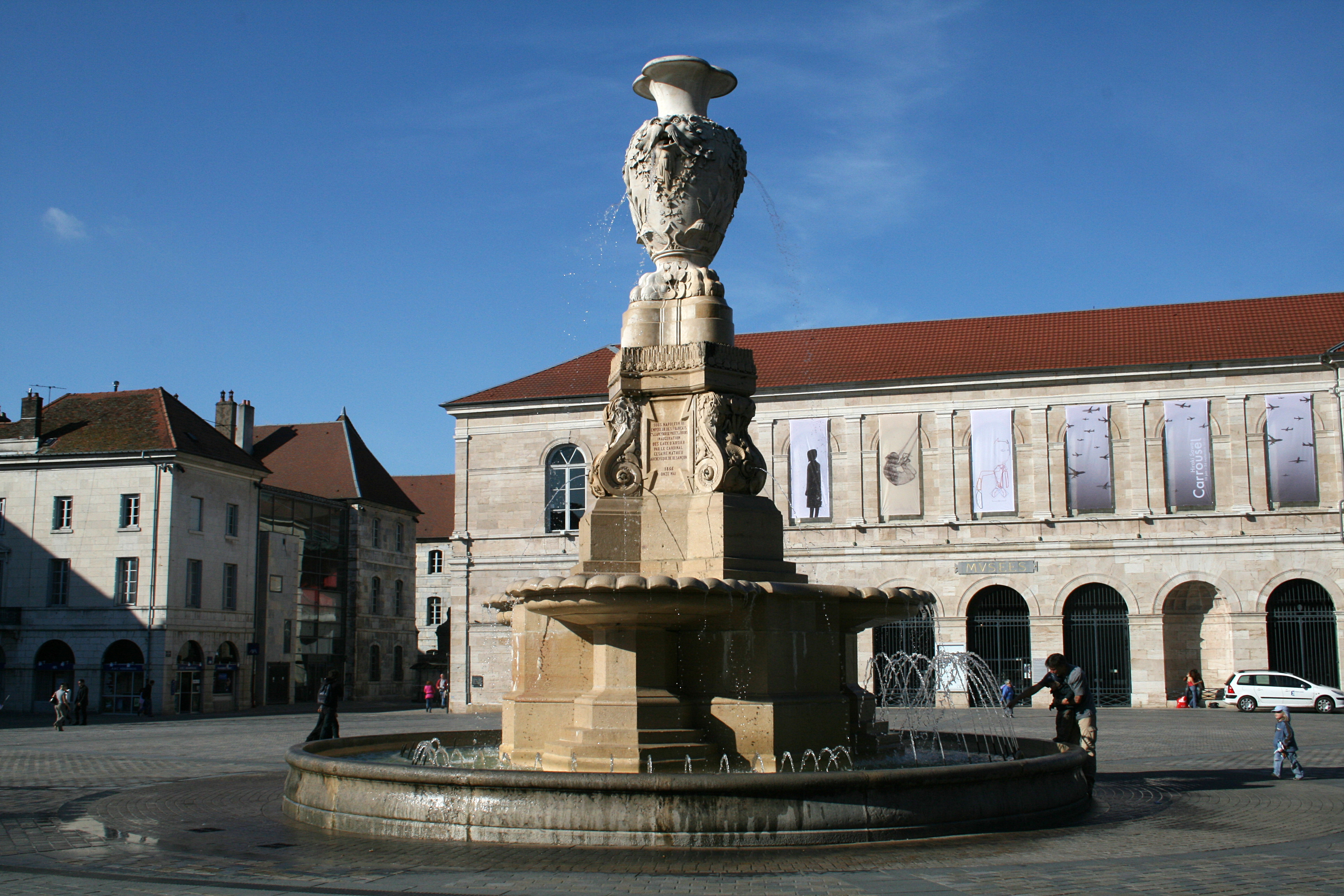 Besançon (Doubs - France), the fountain of the Eaux d'Arcier (Work made in 1854 by architect Alphonse Delacroix and restored in 1860 following damage to its structure by frost).